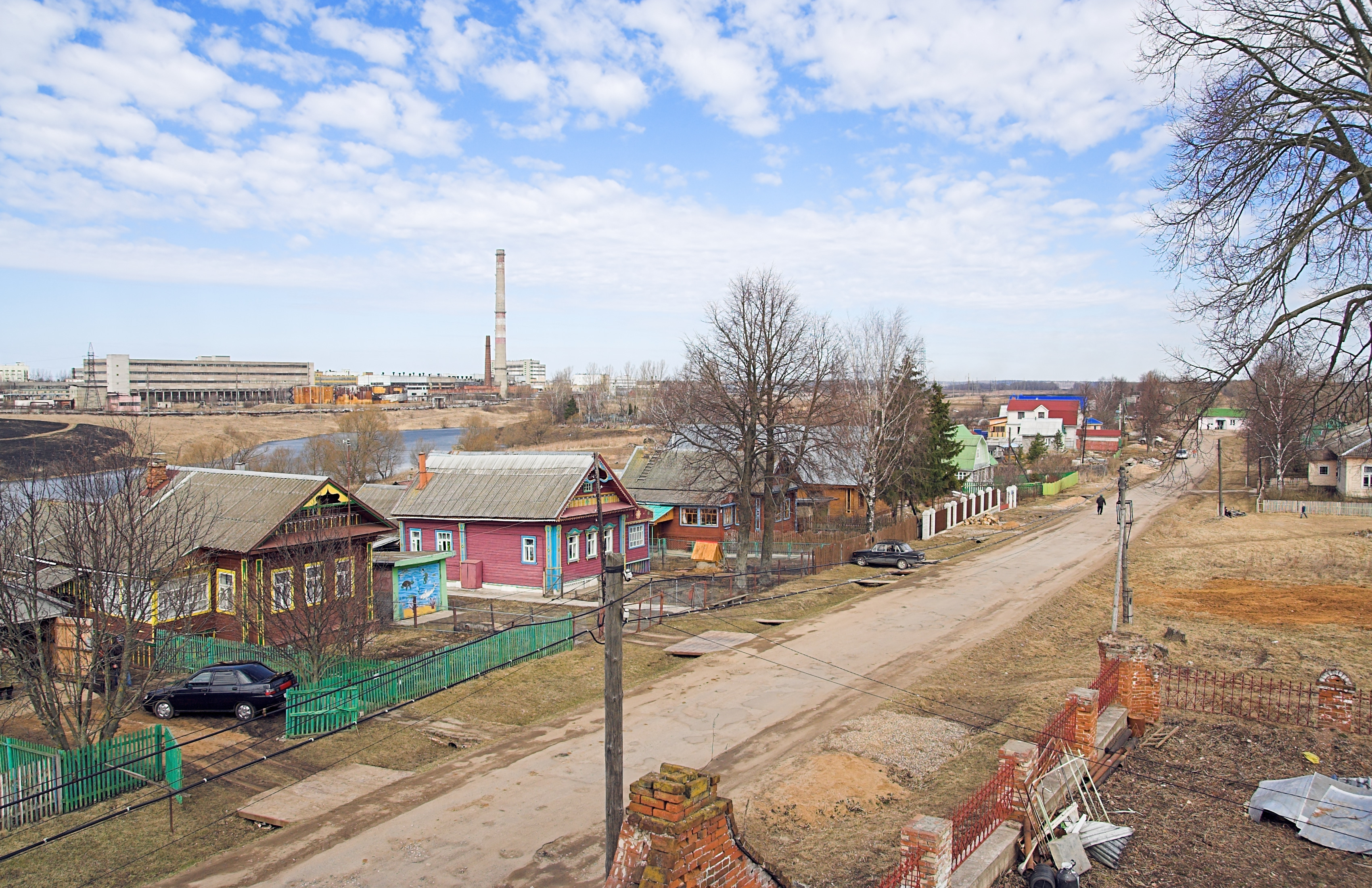 Big Brembola village seen from the bell-tower.